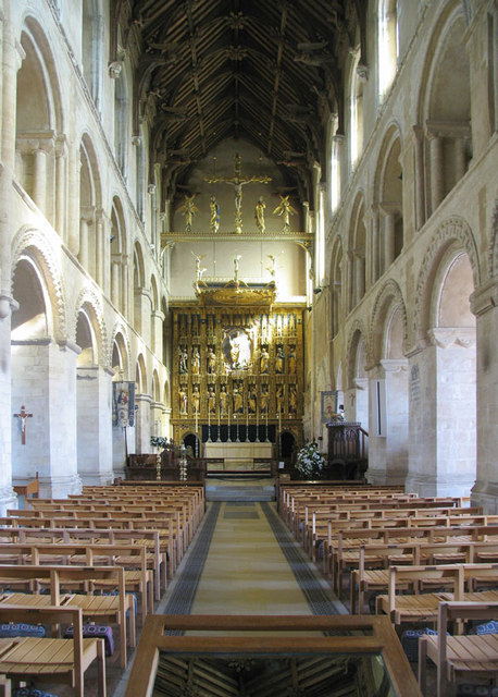 St Mary & St Thomas, Wymondham, Norfolk